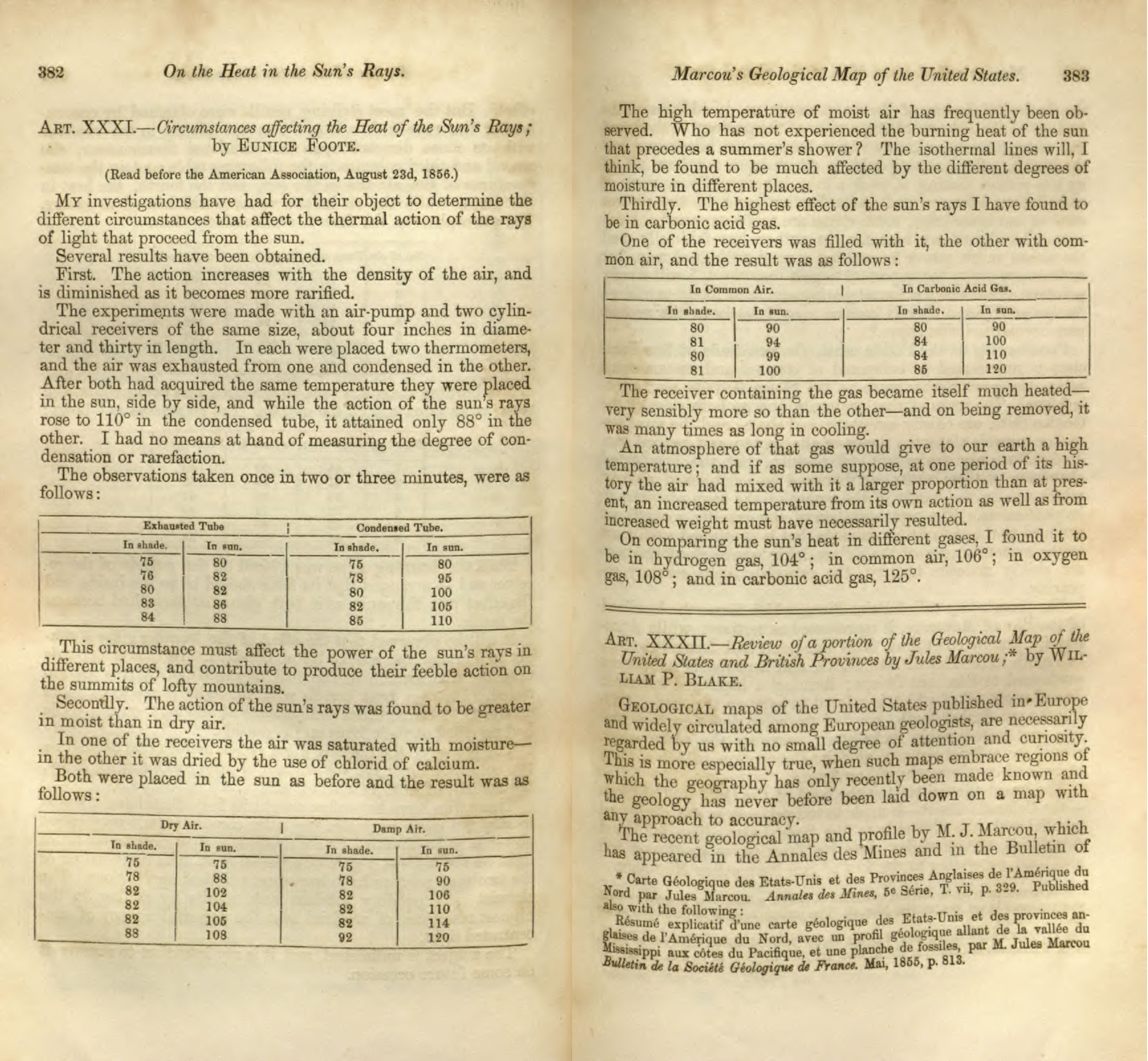 A column in the American Journal of Science and Arts described in 1856 Eunice Newton Foote's temperature experiments with gases, and found that carbonic acid (carbon dioxide / CO2) caused the greatest warming effect.